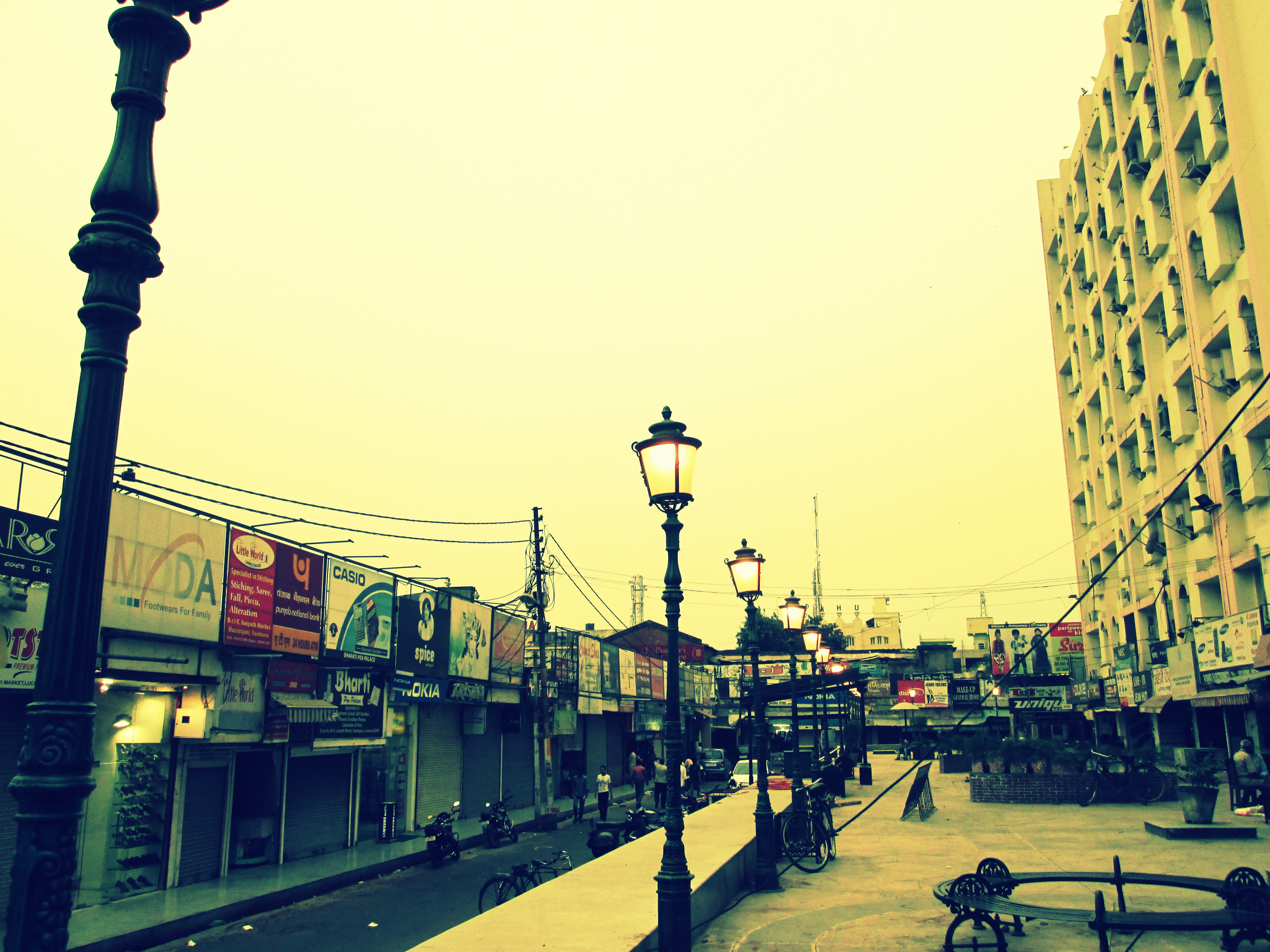 site scene of ambedkar park